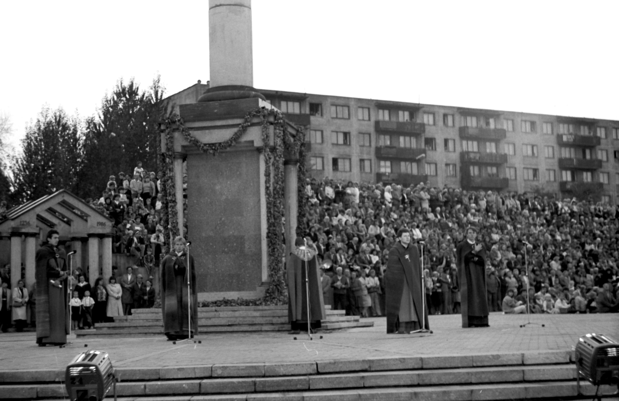 Day of the city Šiauliai